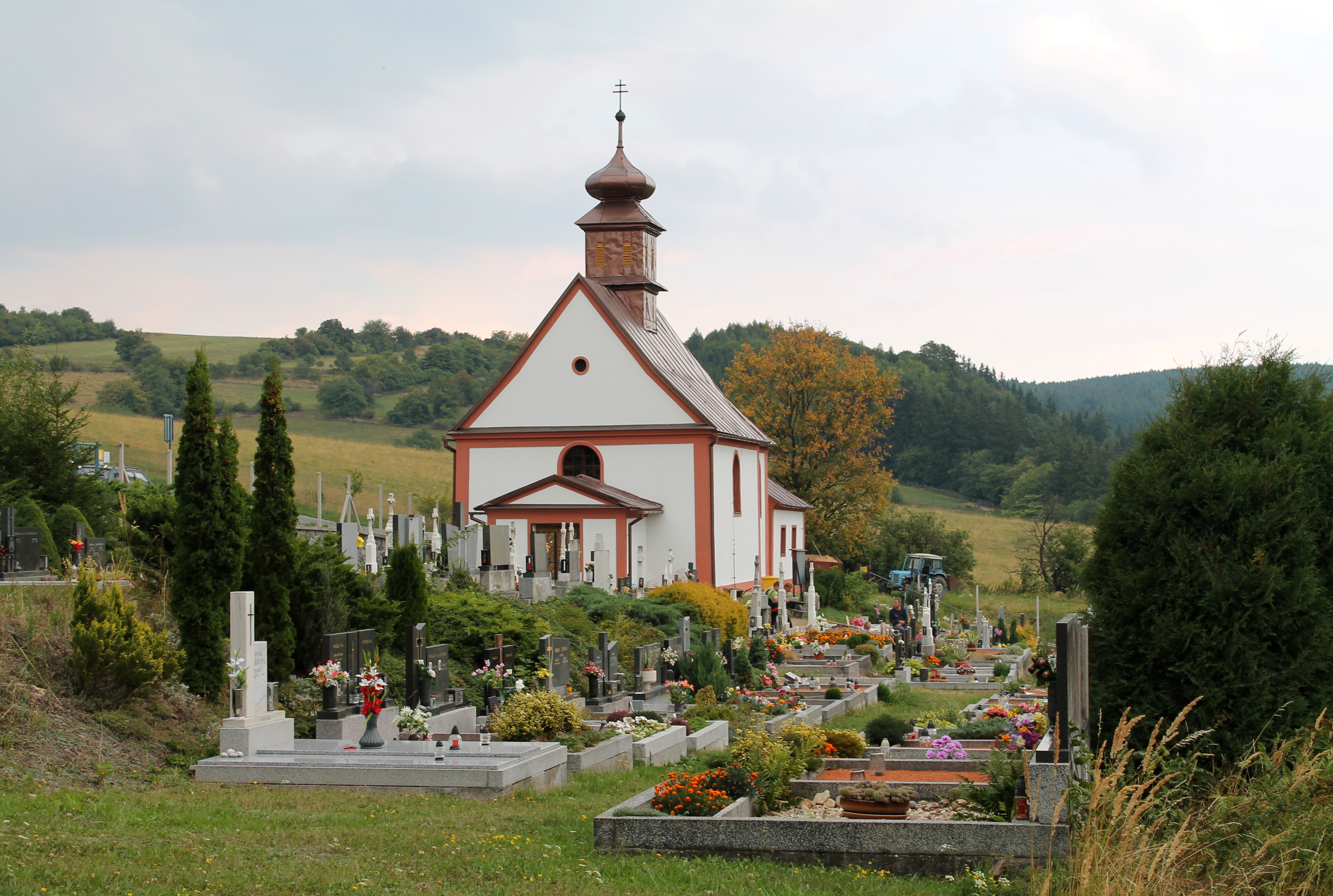 Church of Saint Stanislaus, Osiky, Brno-Country District, Czech Republic - Google Maps - Google Earth